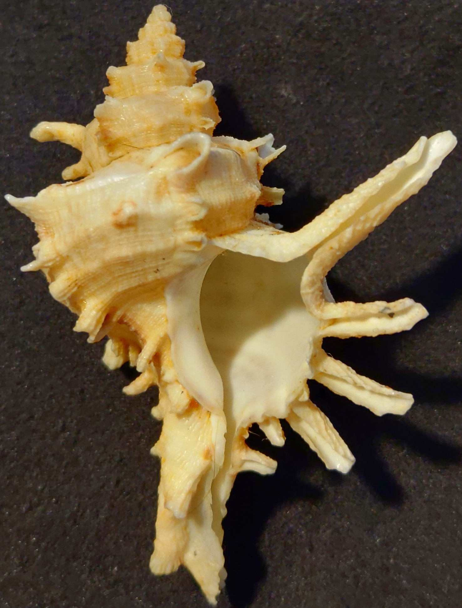 Hexaplex Saharicus Front